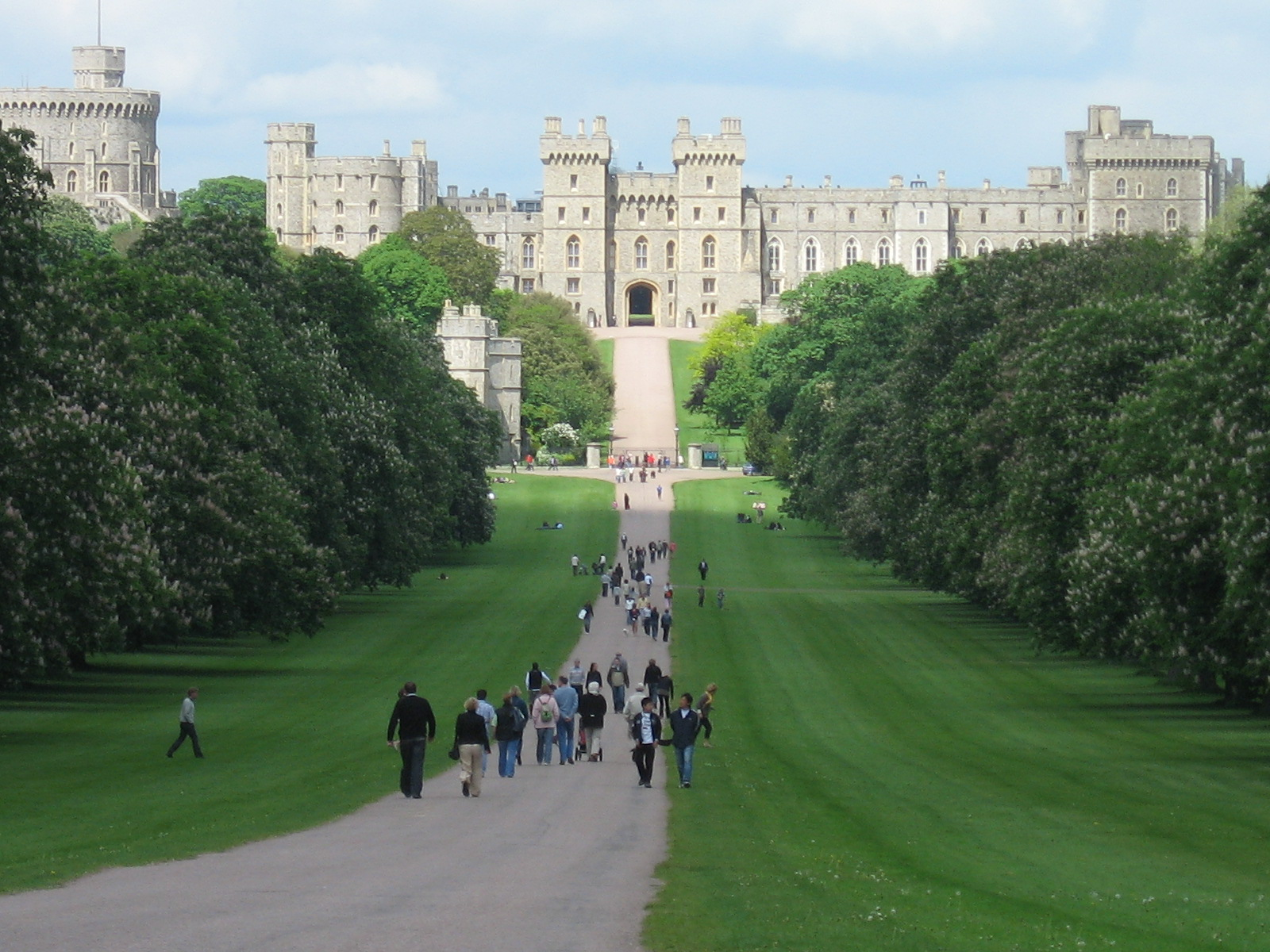 Windsor Castle-Long Walk